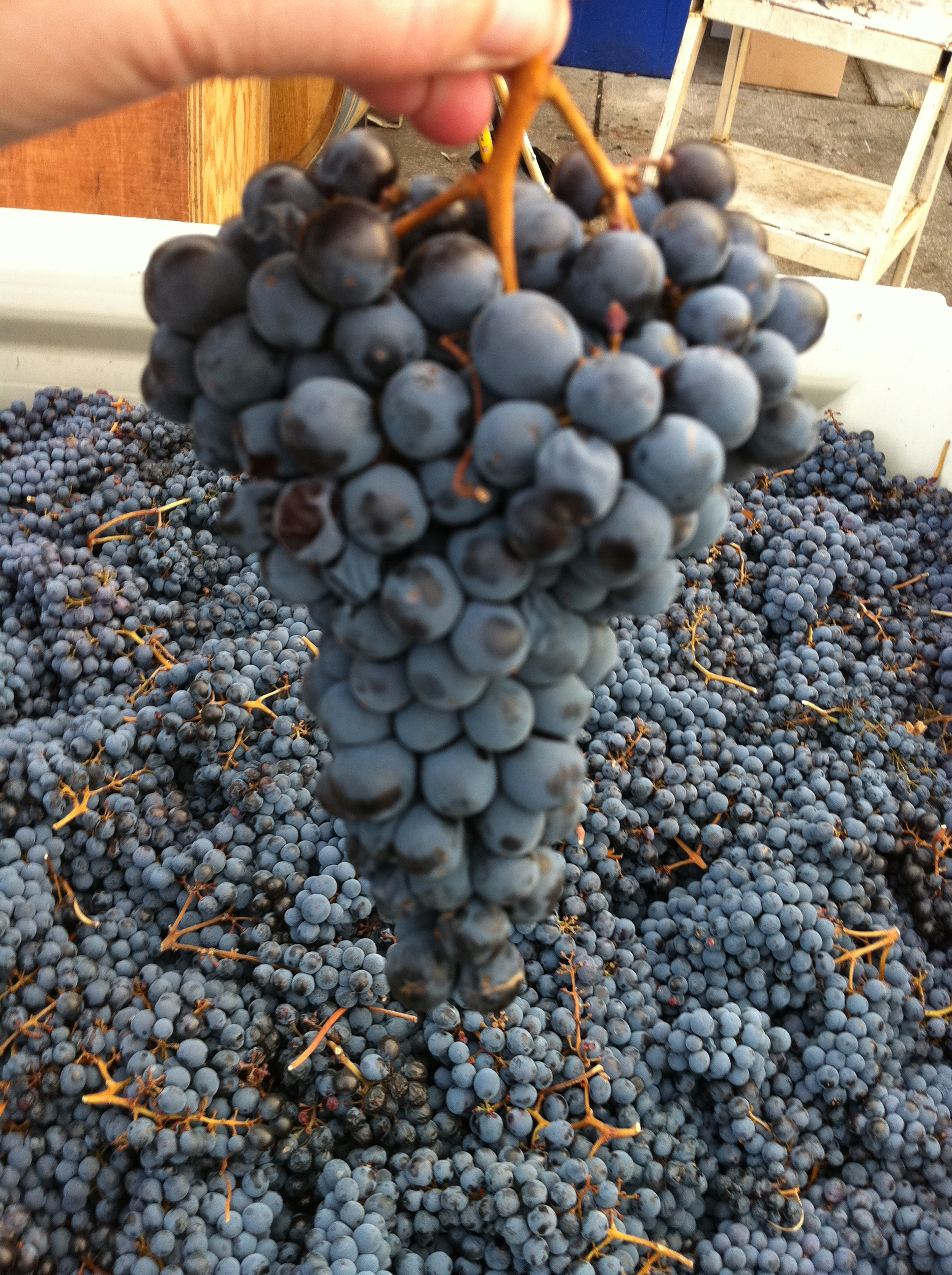 Cluster of Nebbiolo grapes grown in the Columbia Valley AVA of Washington State.